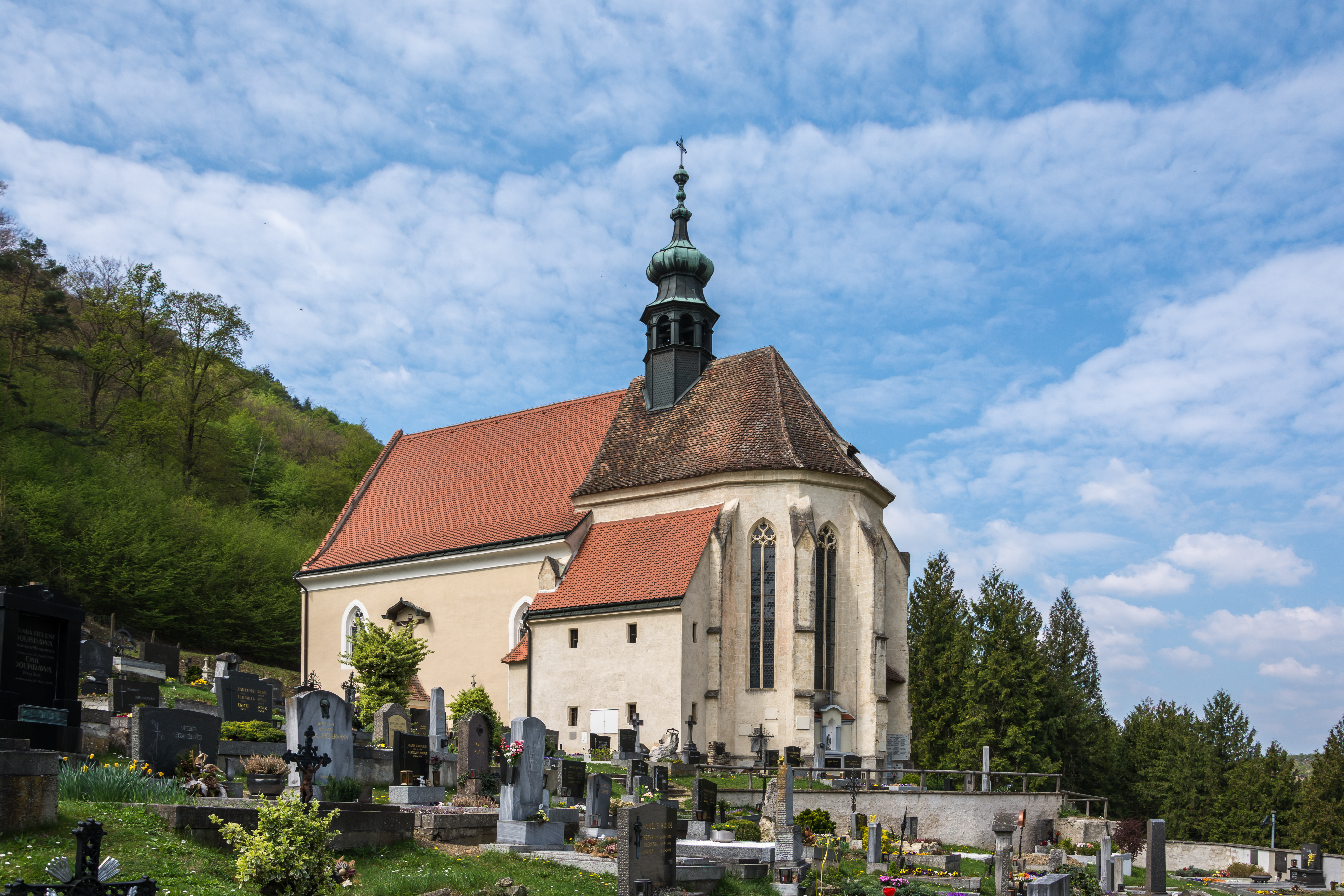 St. Blaise church in Kleinwien near Furth bei Göttweig, Lower Austria